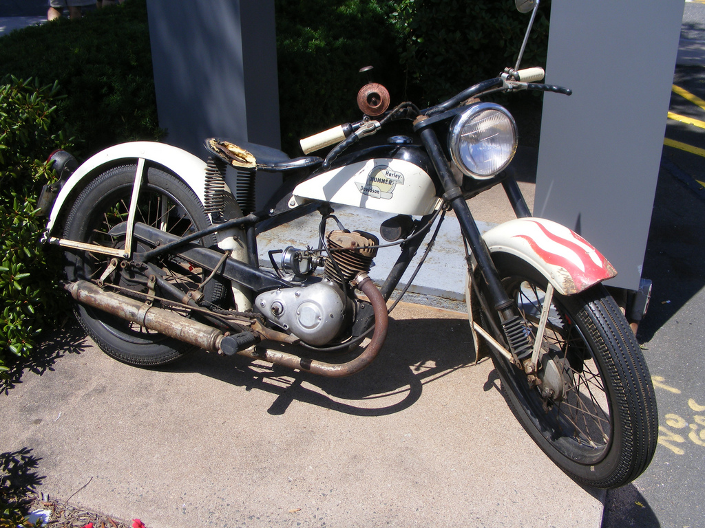 Harley-Davidson Hummer single-cylinder motorcycle